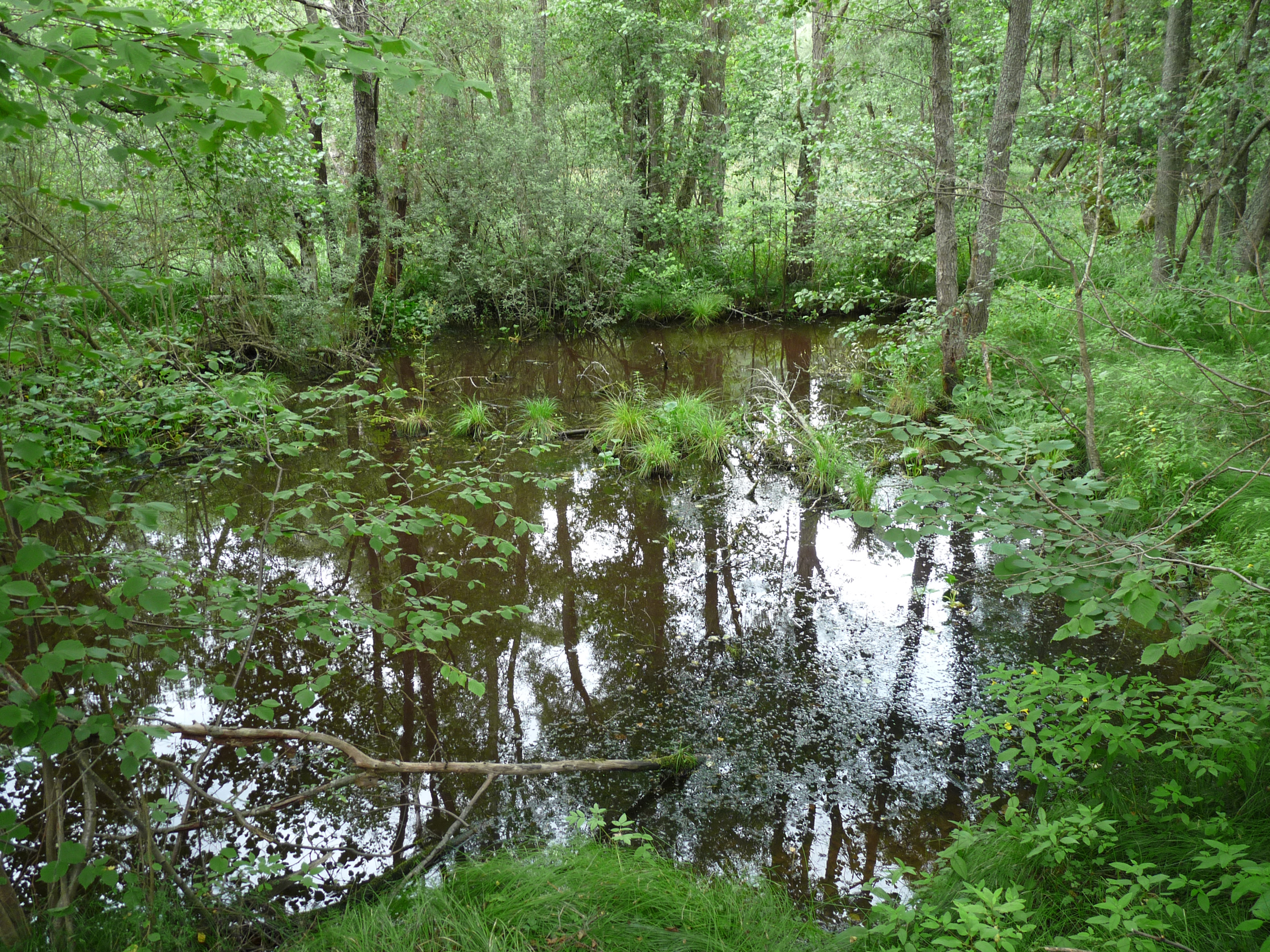 Natural monument Ďáblík, České Budějovice District, Czech Republic. Česky: Přírodní památka Ďáblík v okrese České Budějovice.